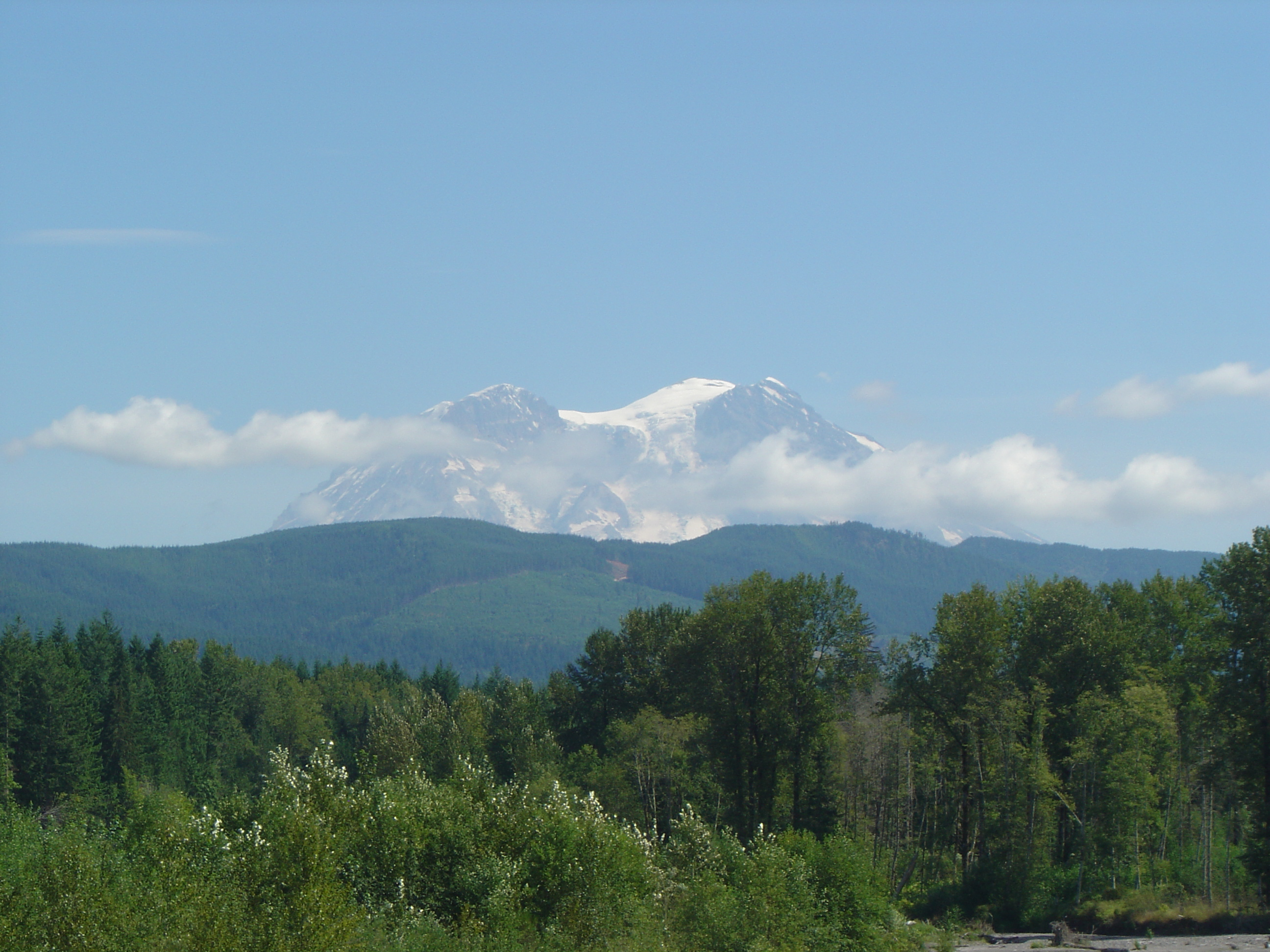 View of Mt. Rainier, taken while riding the Mt. Rainier Scenic RR.